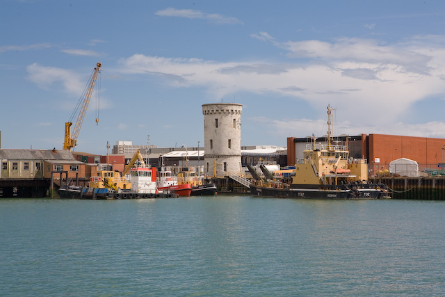 Circular stone tower in Portsmouth dockyard This tower stands between North Wall (on the right) and Flathouse Quay (behind buildings on the left). It has a clock on it. I have been unable to identify it. The yellow boats in front of it appear to be tugs.